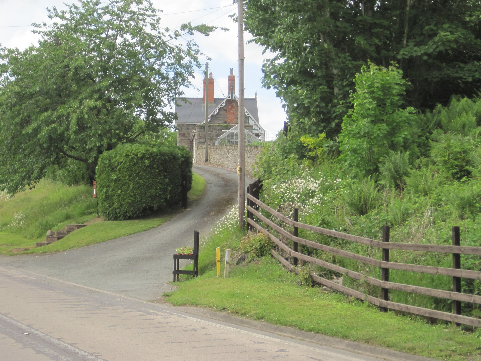 Pontdolgoch railway station (site), PowysOpened in 1863 by the Newtown and Machynlleth Railway, which very soon became part of the Cambrian Railway empire, this station closed in 1965. View north west at the former forecourt.